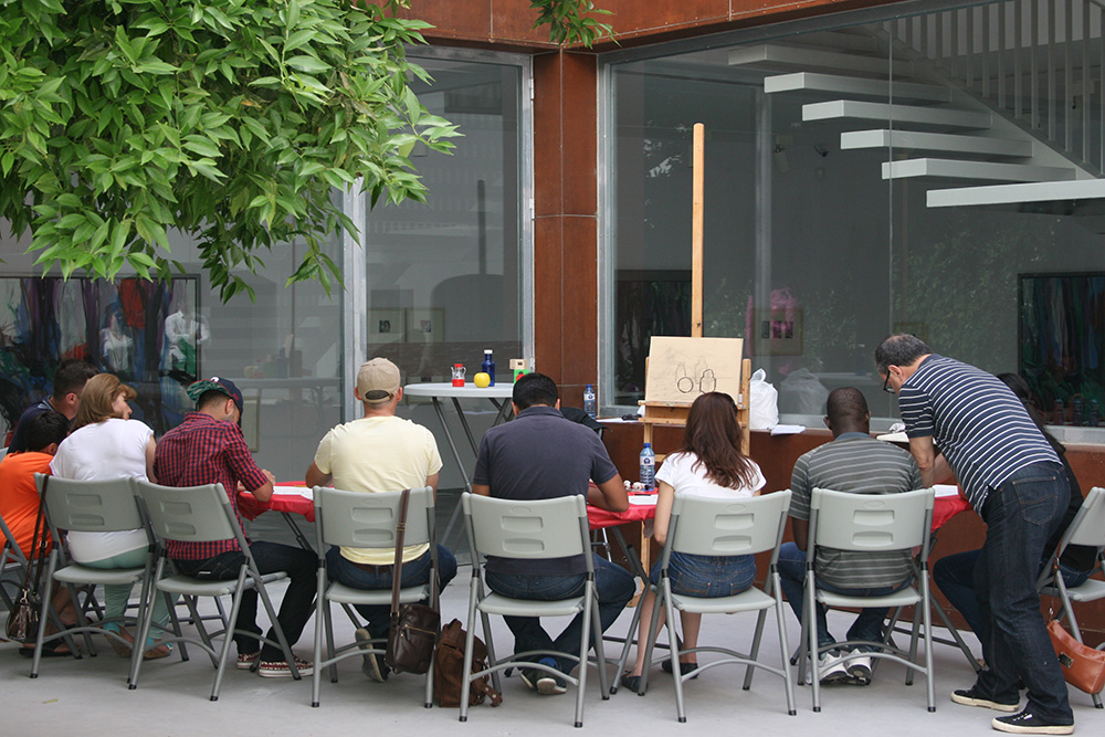 Atelier in the patio of the Museum Jorge Rando